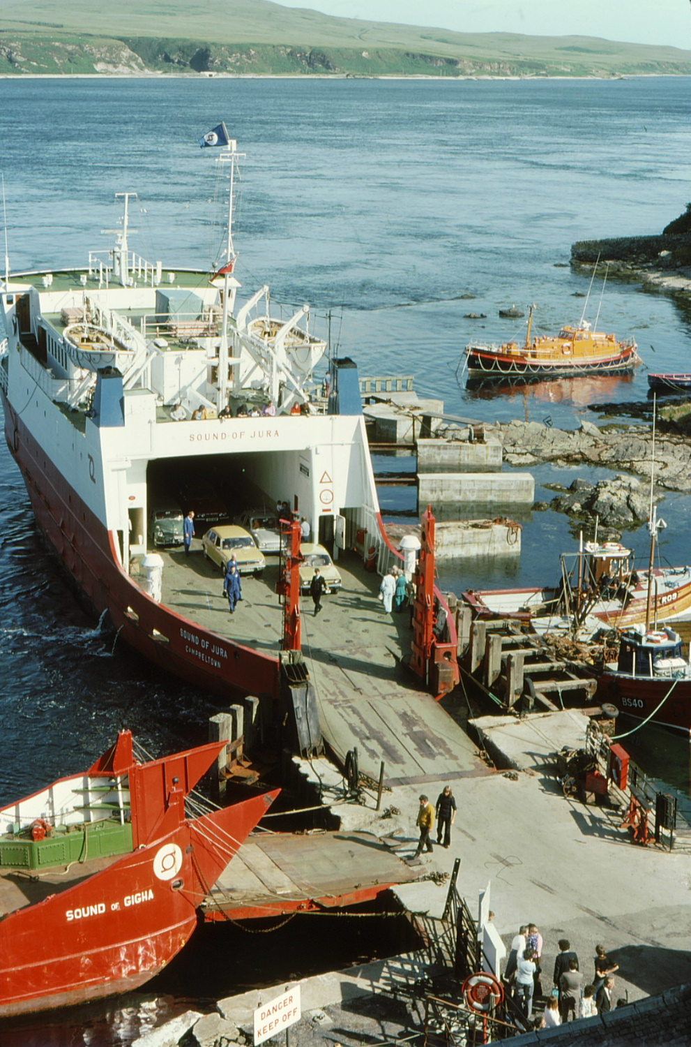 Sound of Jura ferry unloads cars from Kennacraig